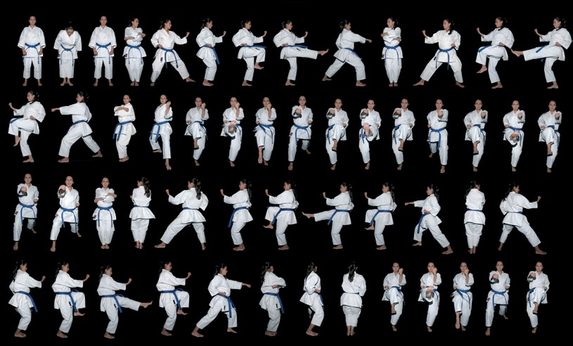 karate kata